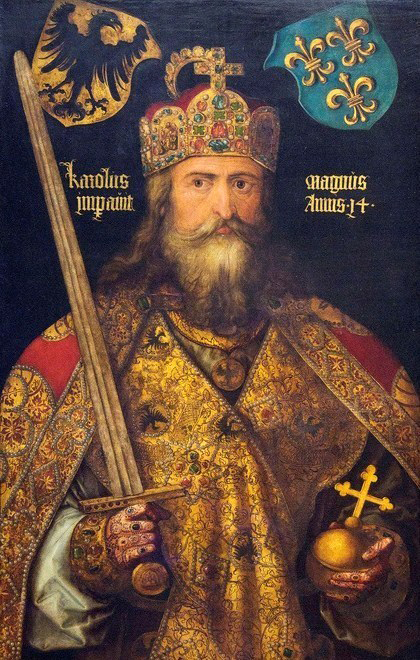 Charles I, Holy Roman Emperor.